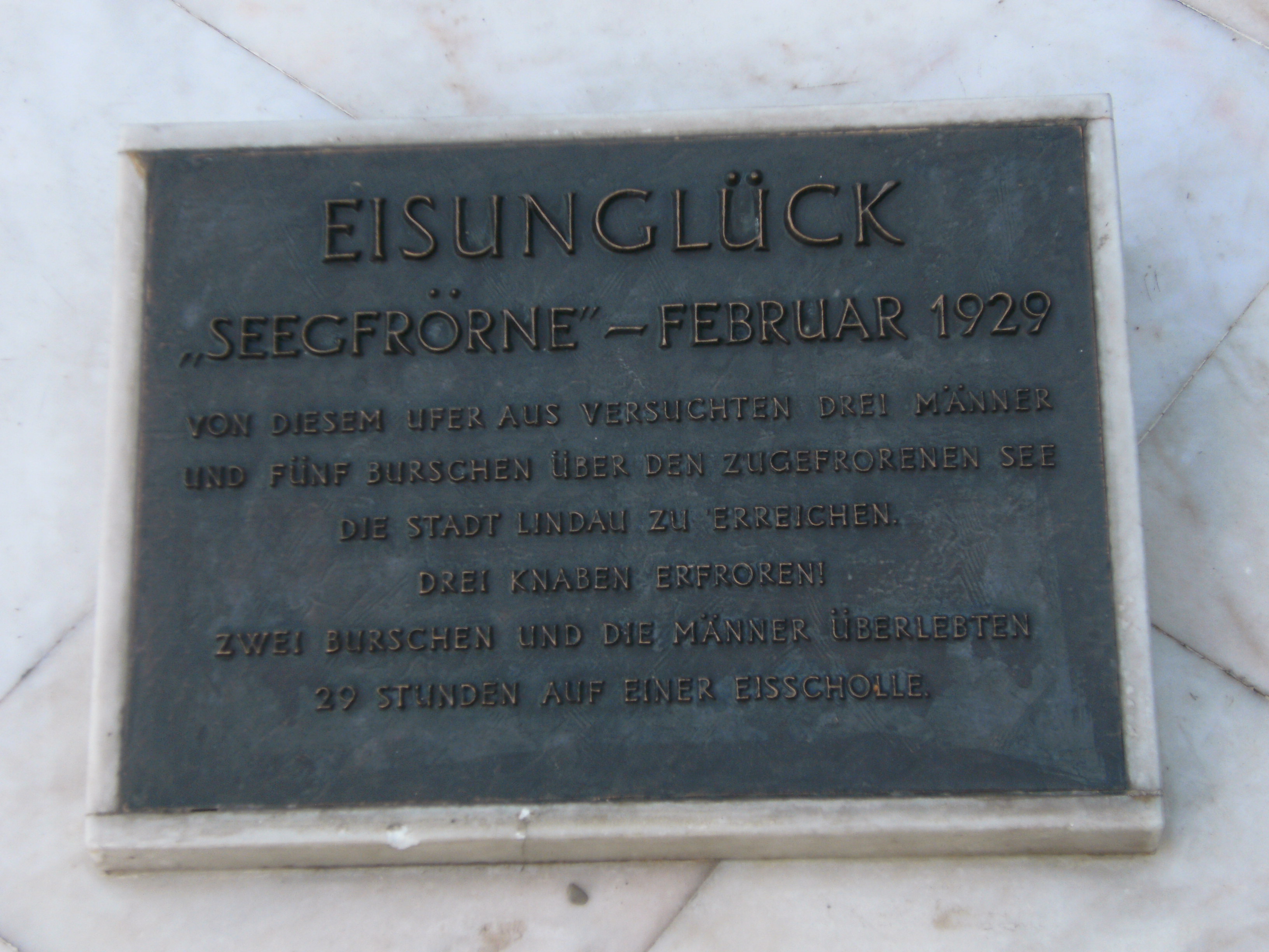 Hard, Austria, harbour, Hafenstraße: Plaque remembering the accident of frozen Lake Constance in 1929, when three young boys starting in Hard and trying to reach Lindau died of cold. In detail.